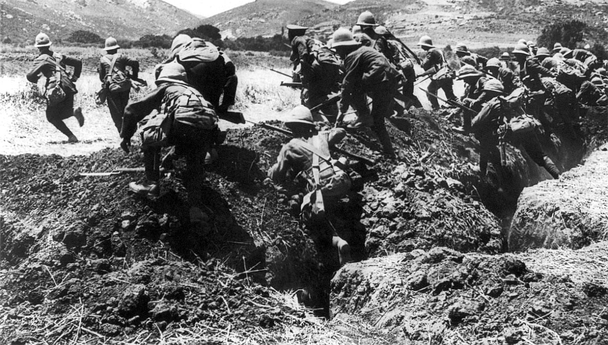 Infantry from the British Royal Naval Division in training on the Greek island of Lemnos during the Battle of Gallipoli, 1915. Men of the Royal Naval Division leaving the trenches in Gallipoli to attack the Turk with cold steel. On the extreme left the officer is seen leading the attack, while the hills in the background are typical of the difficult country to be traversed before Constantinople falls to the Allies.